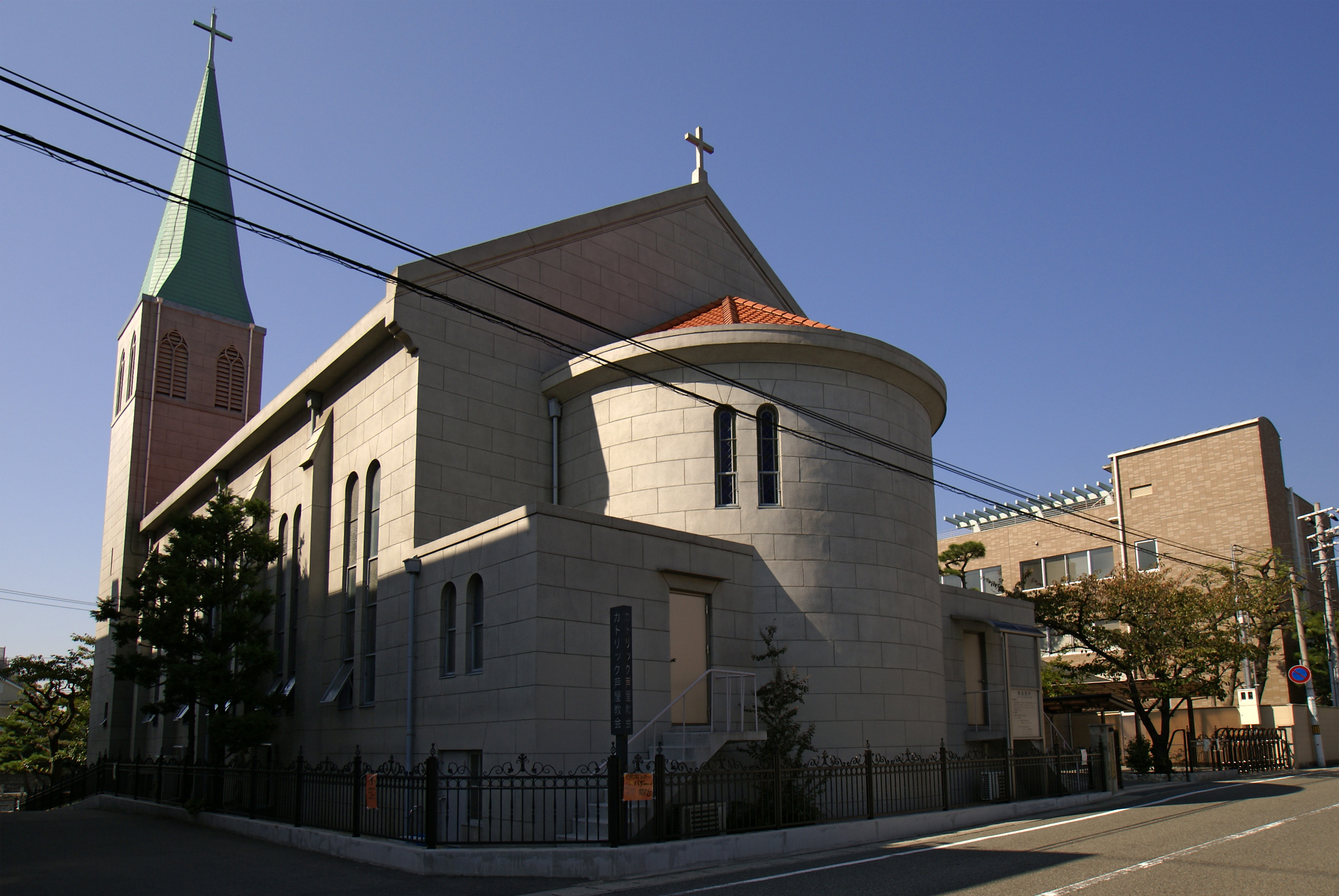 Ashiya Catholic Church in Ashiya, Hyogo prefecture, Japan